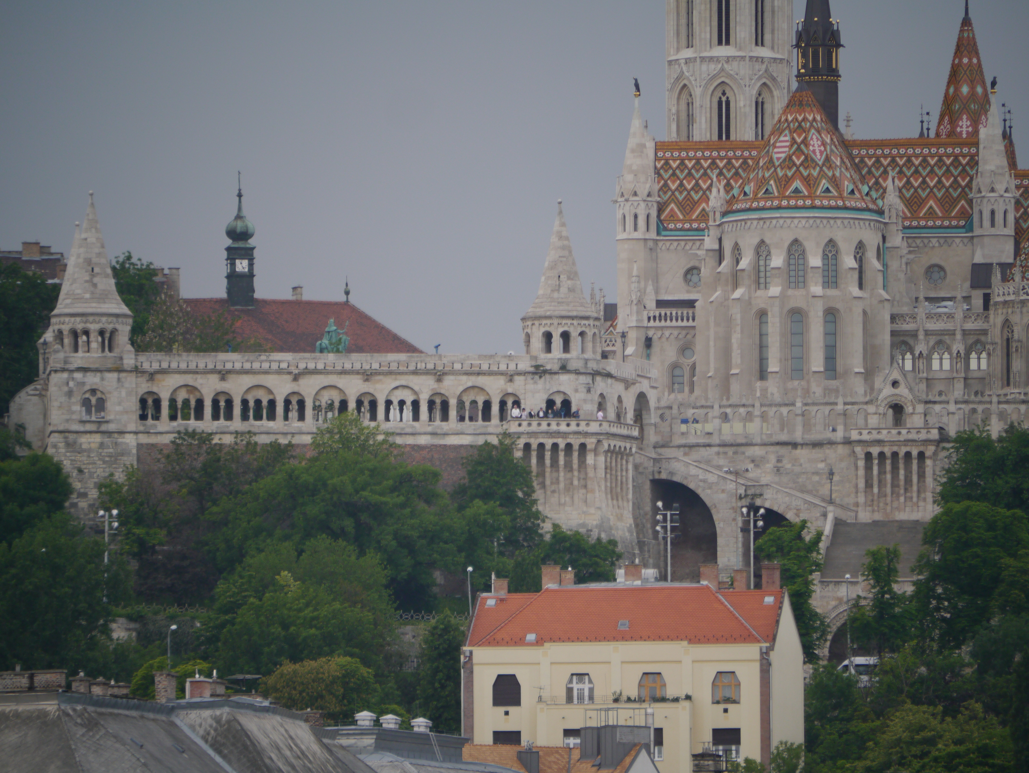 Fisher bastion, Budapest, Northern Hungary